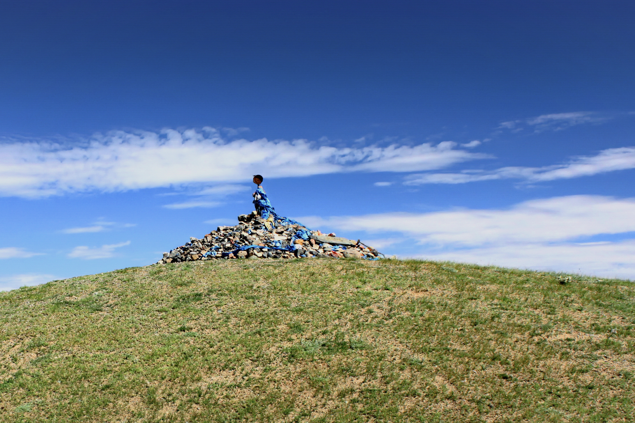 Ovoo. Kharkhorin, Övörkhangai Province, Mongolia.